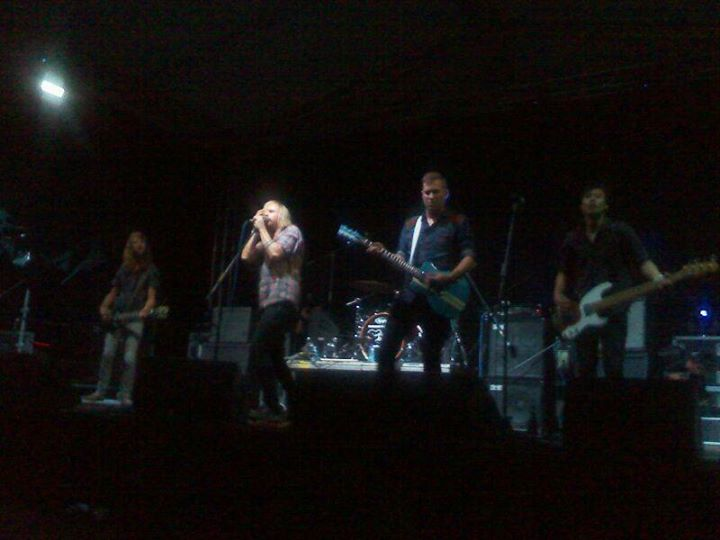 Taxi Violence live at the Johannesburg leg of RAMfest 2014 on the Monster Stage.